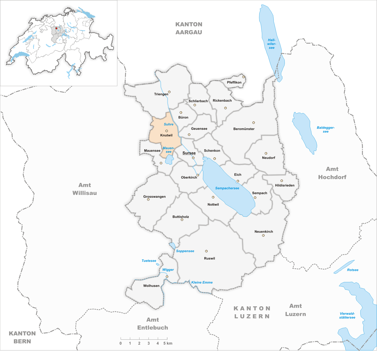 Municipality Knutwil